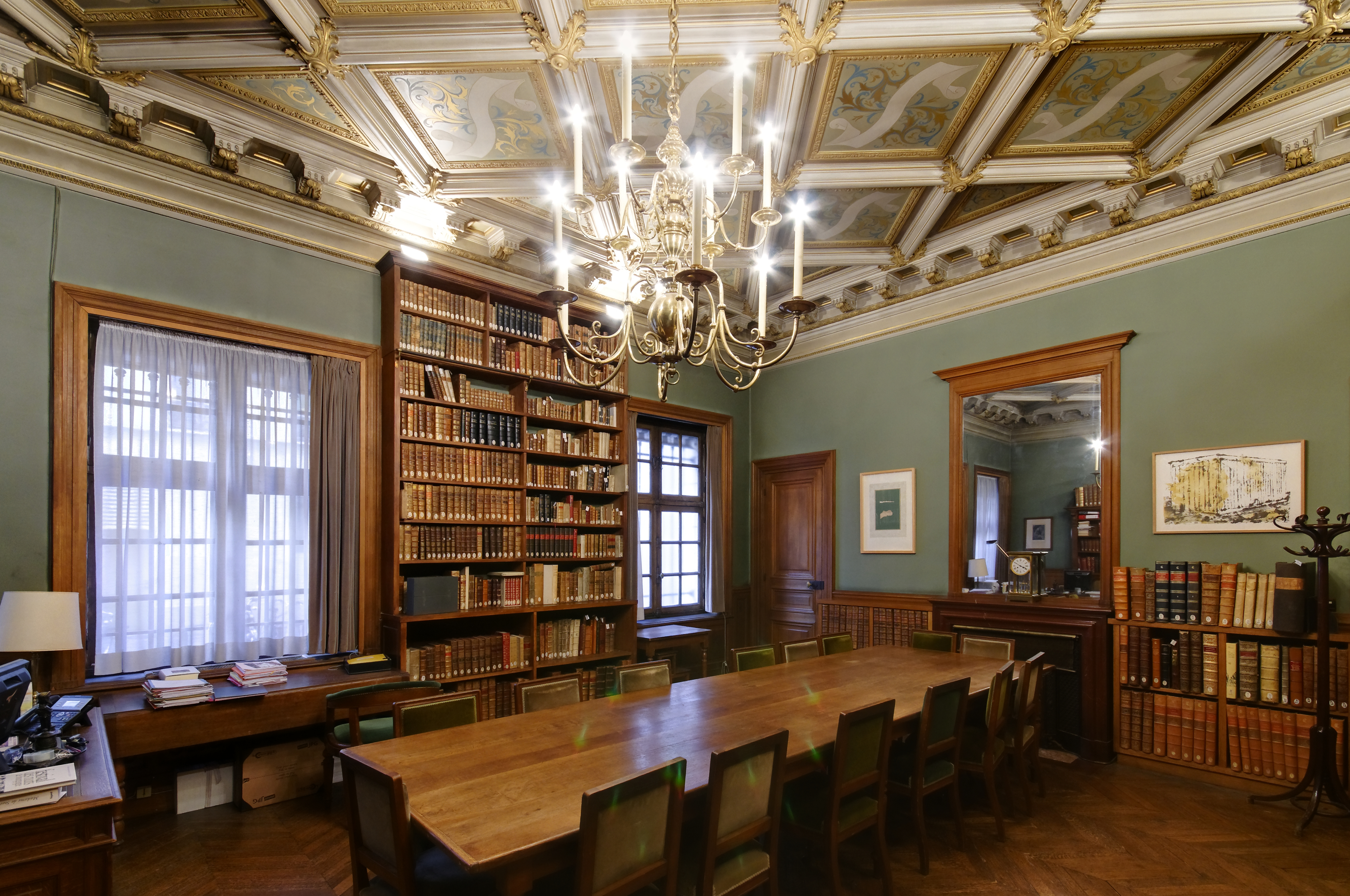 President's office, École Nationale des Chartes, Paris.